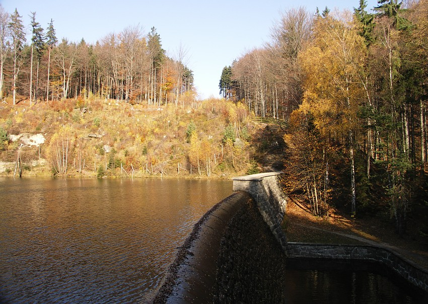 Barrage Naděje on the Hamerský potok, Lusatian Maountains, Czech Republic